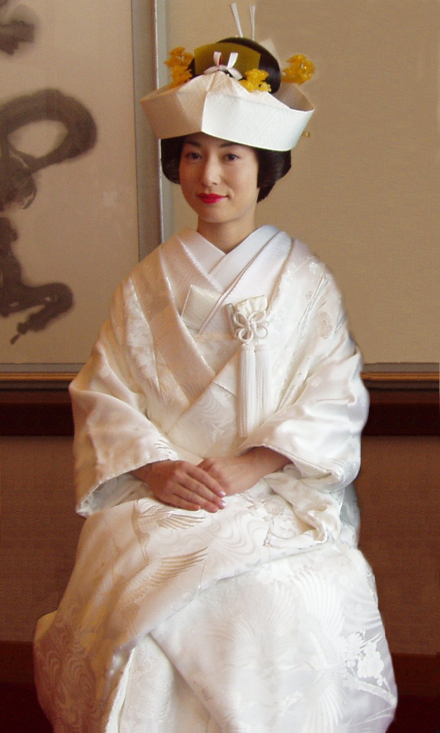 Japanese woman in a wedding kimono.